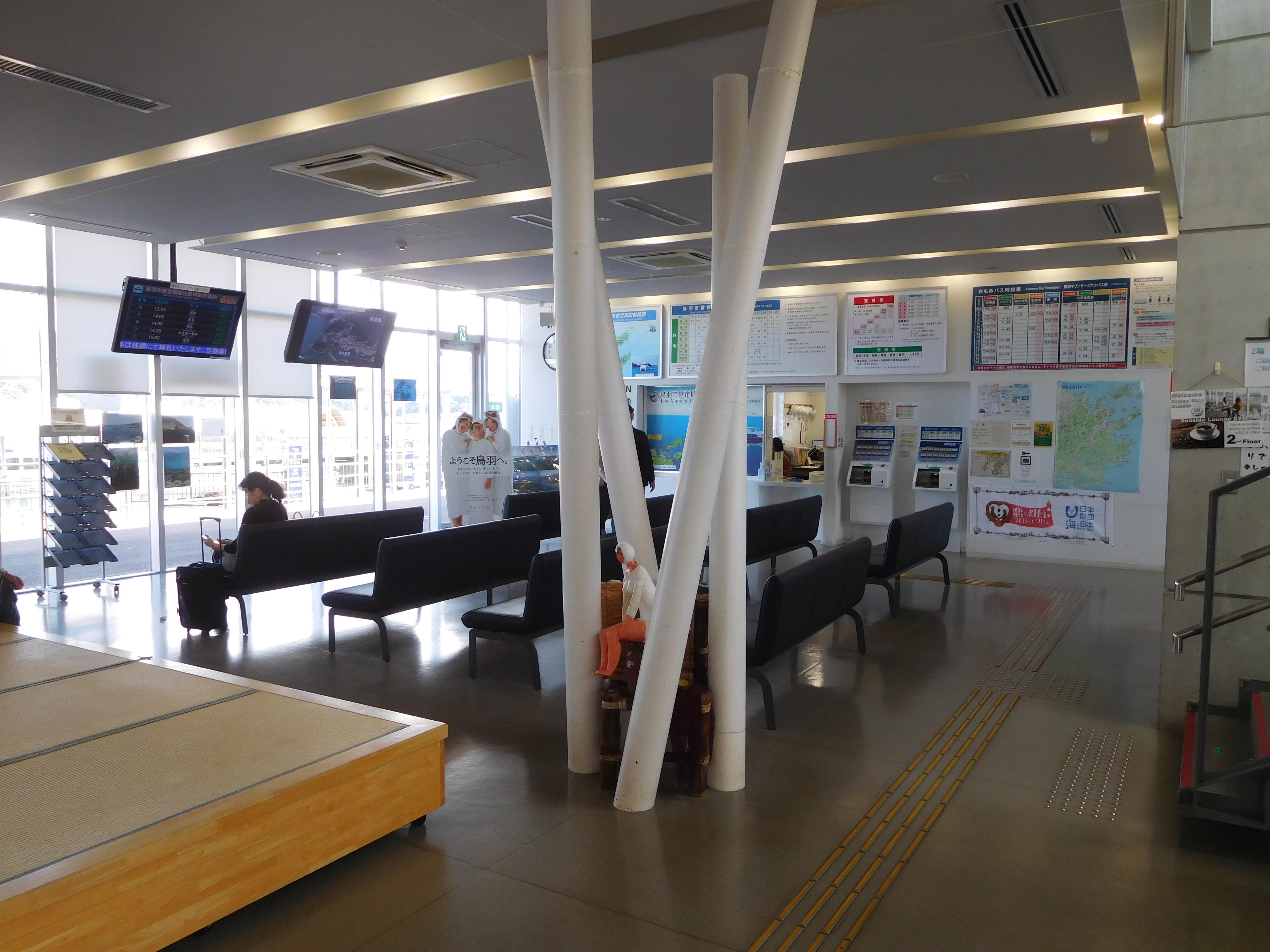 This is the Exchange Lounge of Toba Marine Terminal in Toba, Mie, Japan.